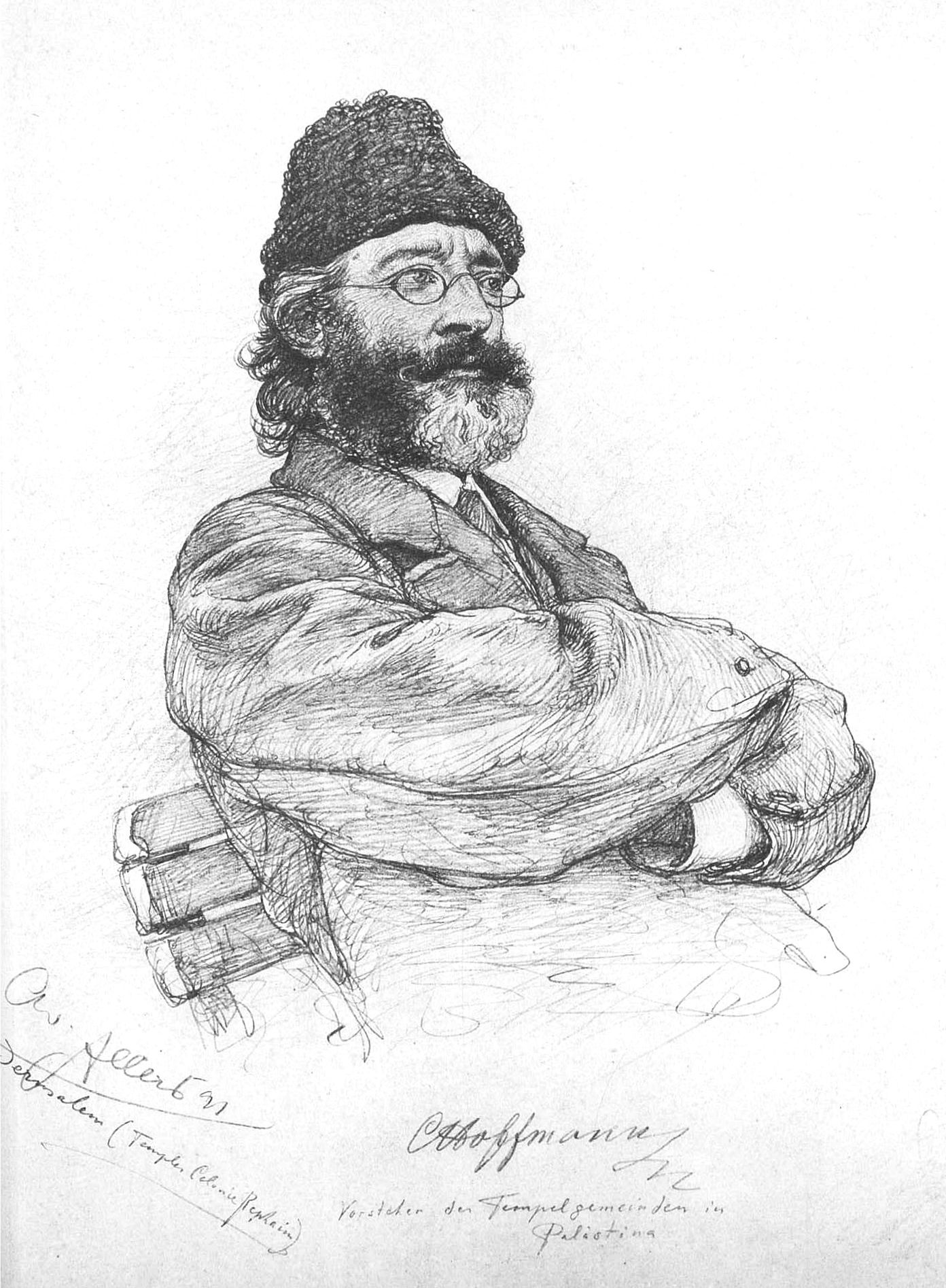 Christoph Hoffmann II (junior, 1847-1911), Leader of Temple society in Palestine from 1890.